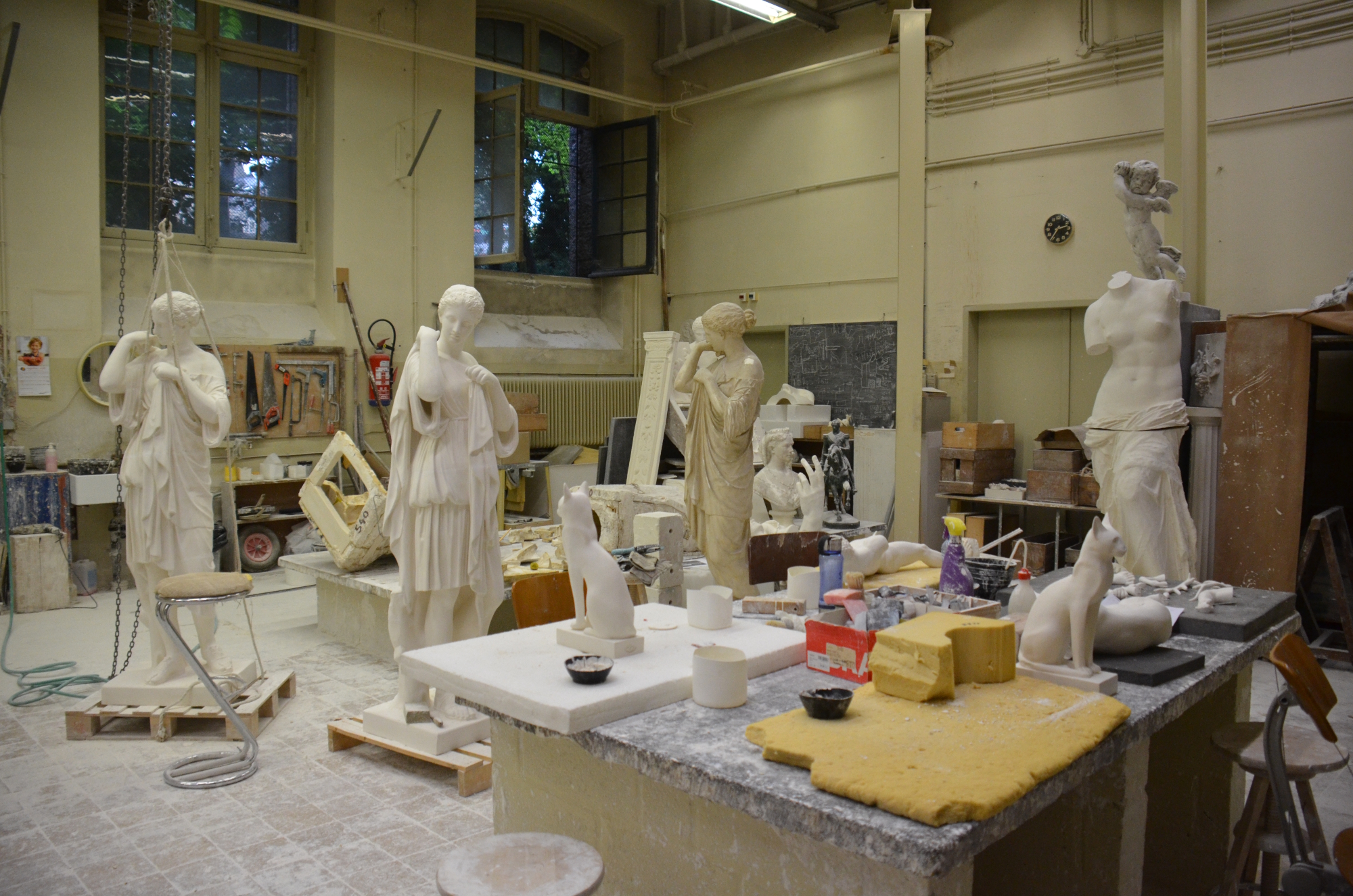 This is a file created at the museum: Jubilee Park Museum in Brussels